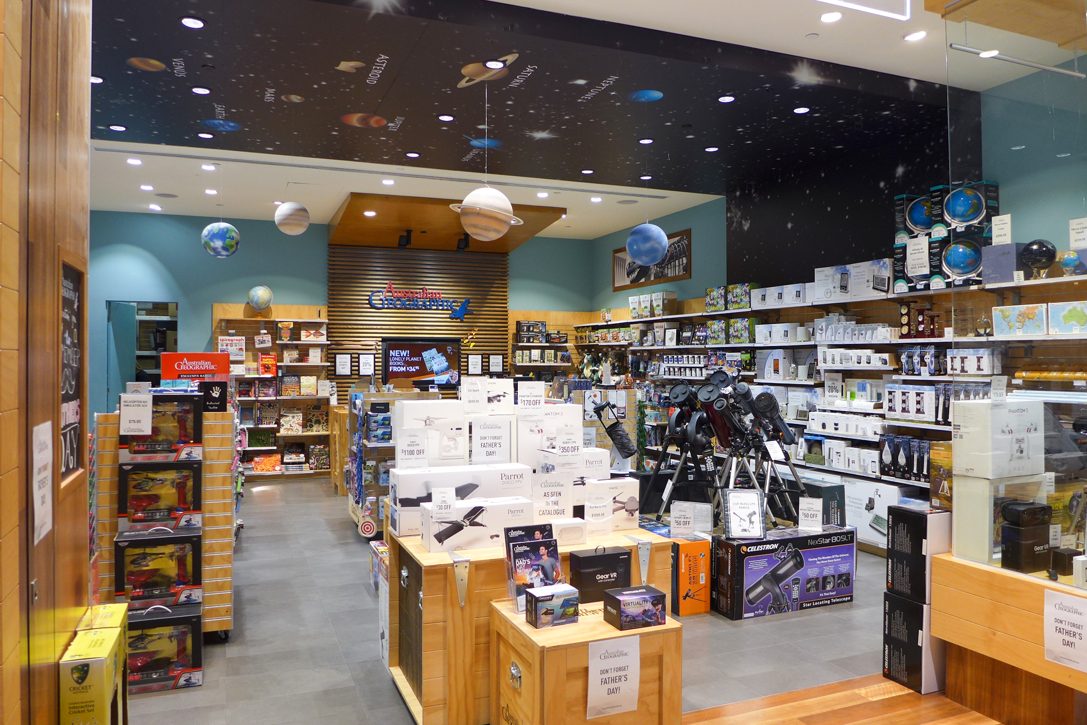 Australian Geographic store in Melbourne Emporium